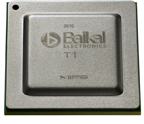 Microprocessor BE-T1000